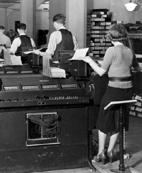 A scene from the U.S. Social Security Administration (SSA)'s early accounting operations in Baltimore circa 1936. The issuing of Social Security numbers and the creation of earnings records on all Americans covered by Social Security was the largest bookkeeping operation in the history of the world.